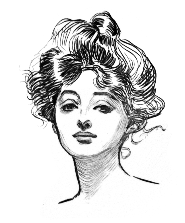 Engraving after the pen and ink drawing of the Gibson Girl by illustrator Sarah Kaplan